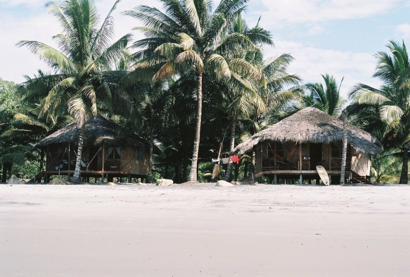 The hostel at the southernmost shore of the bay, Mompiche. 03/05/2006, John Clark